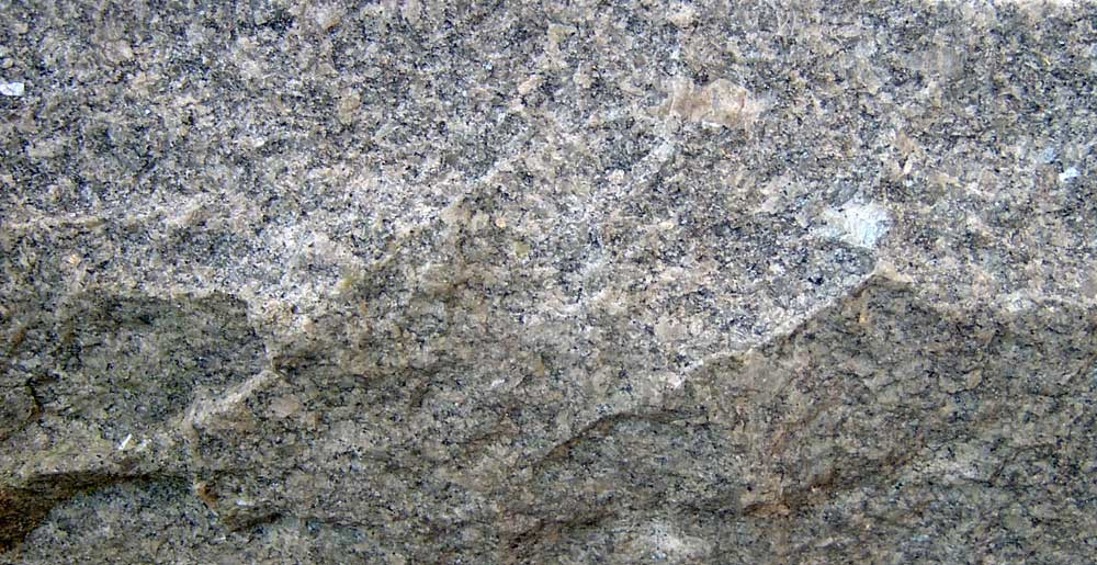 Grey granite from Iddefjord, Norway.